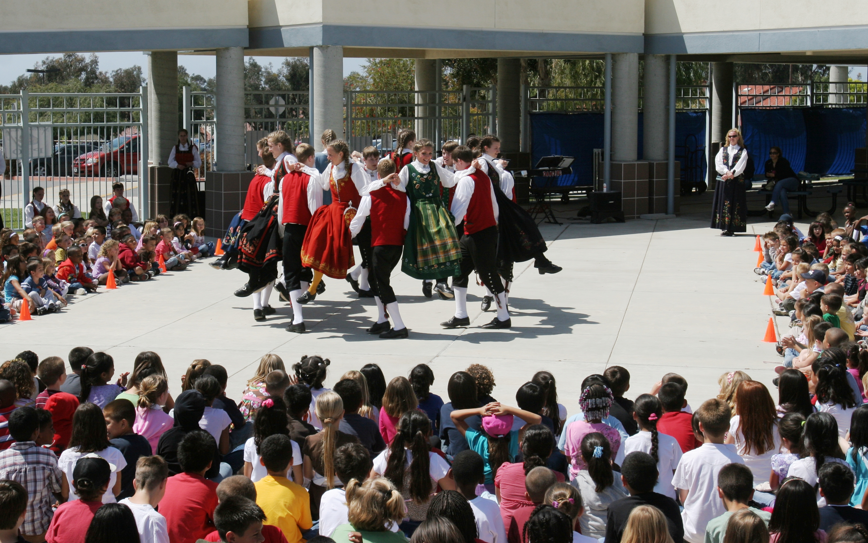 More than 700 children from Stuart Mesa Elementary School watched the Norwegian Dance Group perform at the school’s courtyard, March 31. Twenty-three high school students from Stoughton, Wis., performed Norwegian dancing as a part of their tour in California. “We perform nationwide, said Polly L. Goepfert, director, Norwegian Dance Group. This year we chose California and will have 15 performances in three cities,” she said. “I have two boys in the military, that’s why we dedicated our time to come to Camp Pendleton and thank the military.”